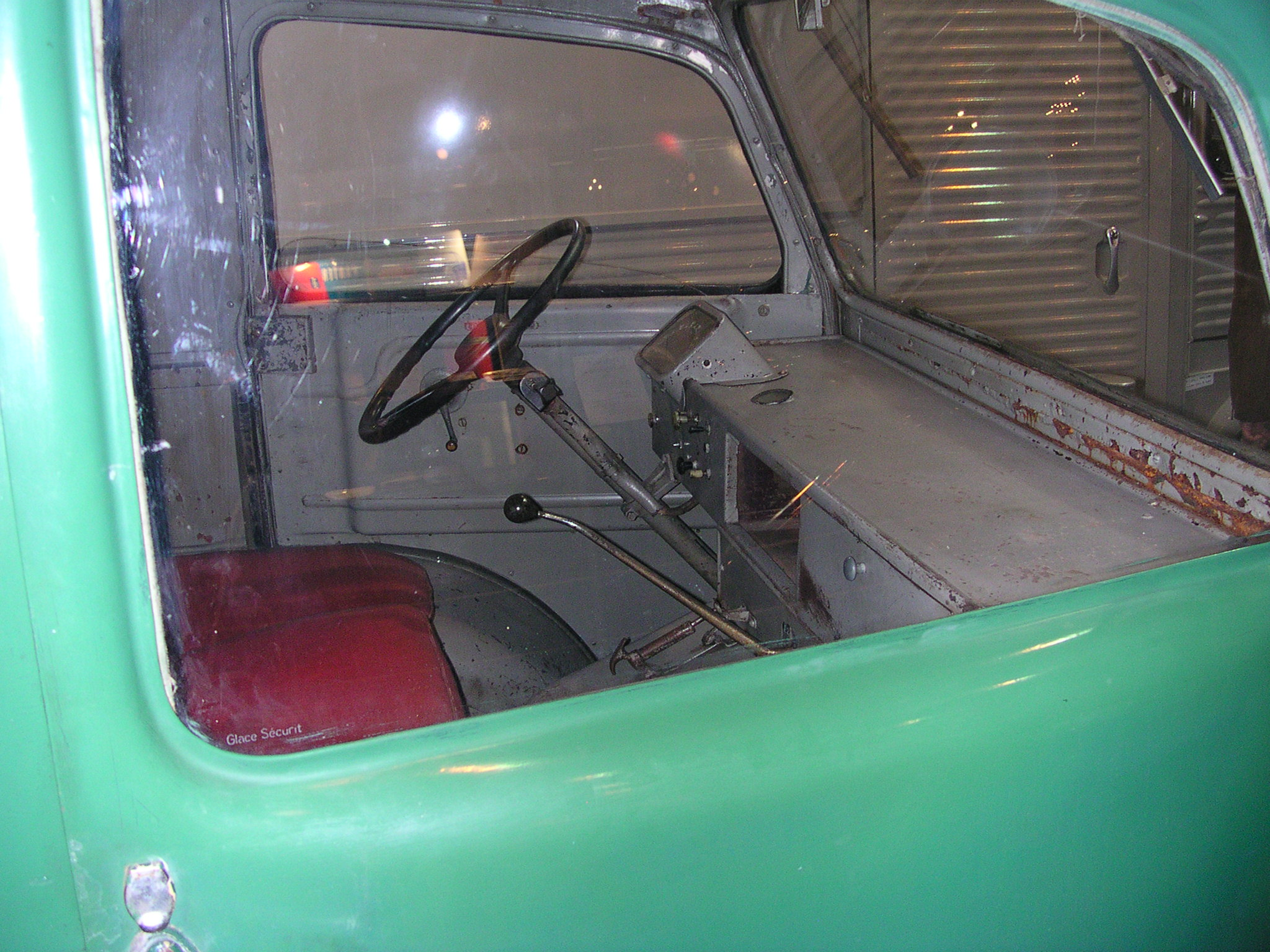 Essen Techno-Classica 2007, Citroën TUB